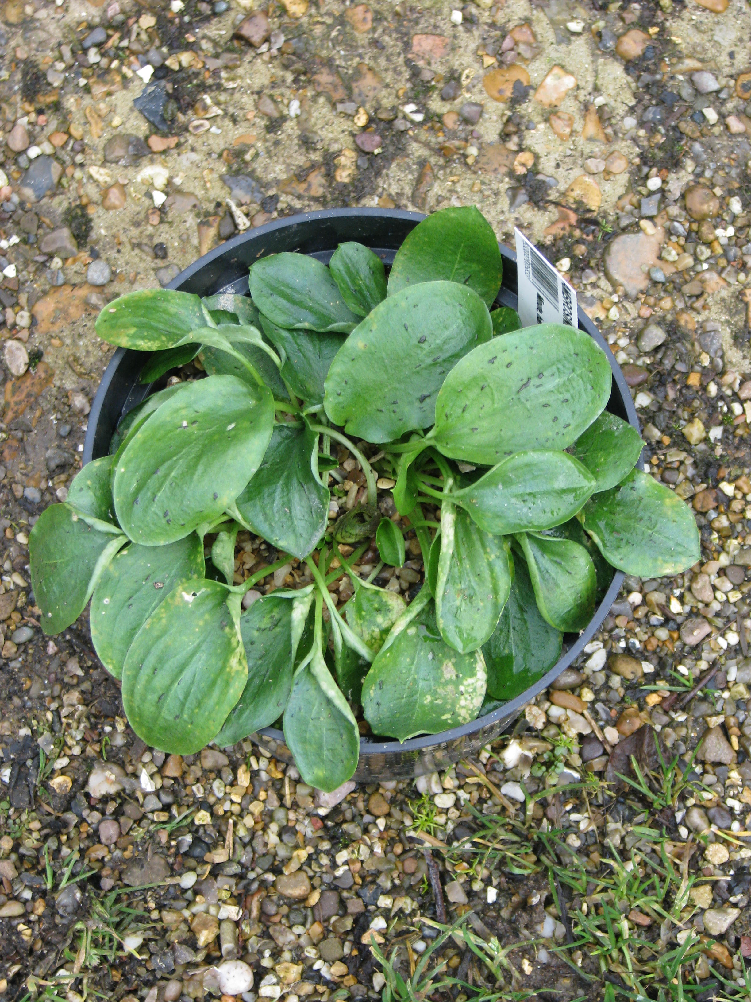 Possibly the most underwhelming inflorescence I have ever seen... (it's the little green boat shaped thing in the middle there)